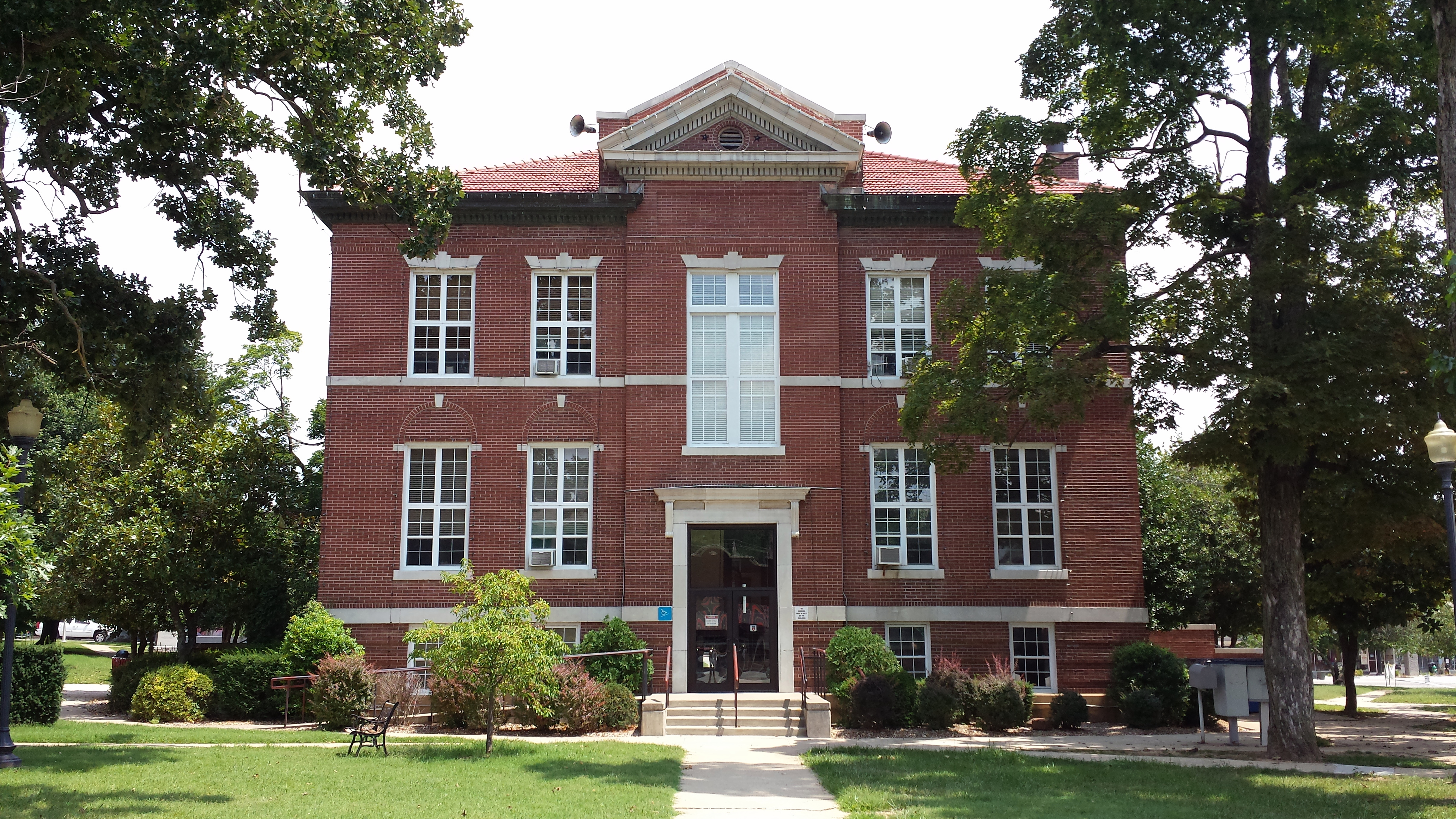 Boone County Courthouse in Harrison, AR